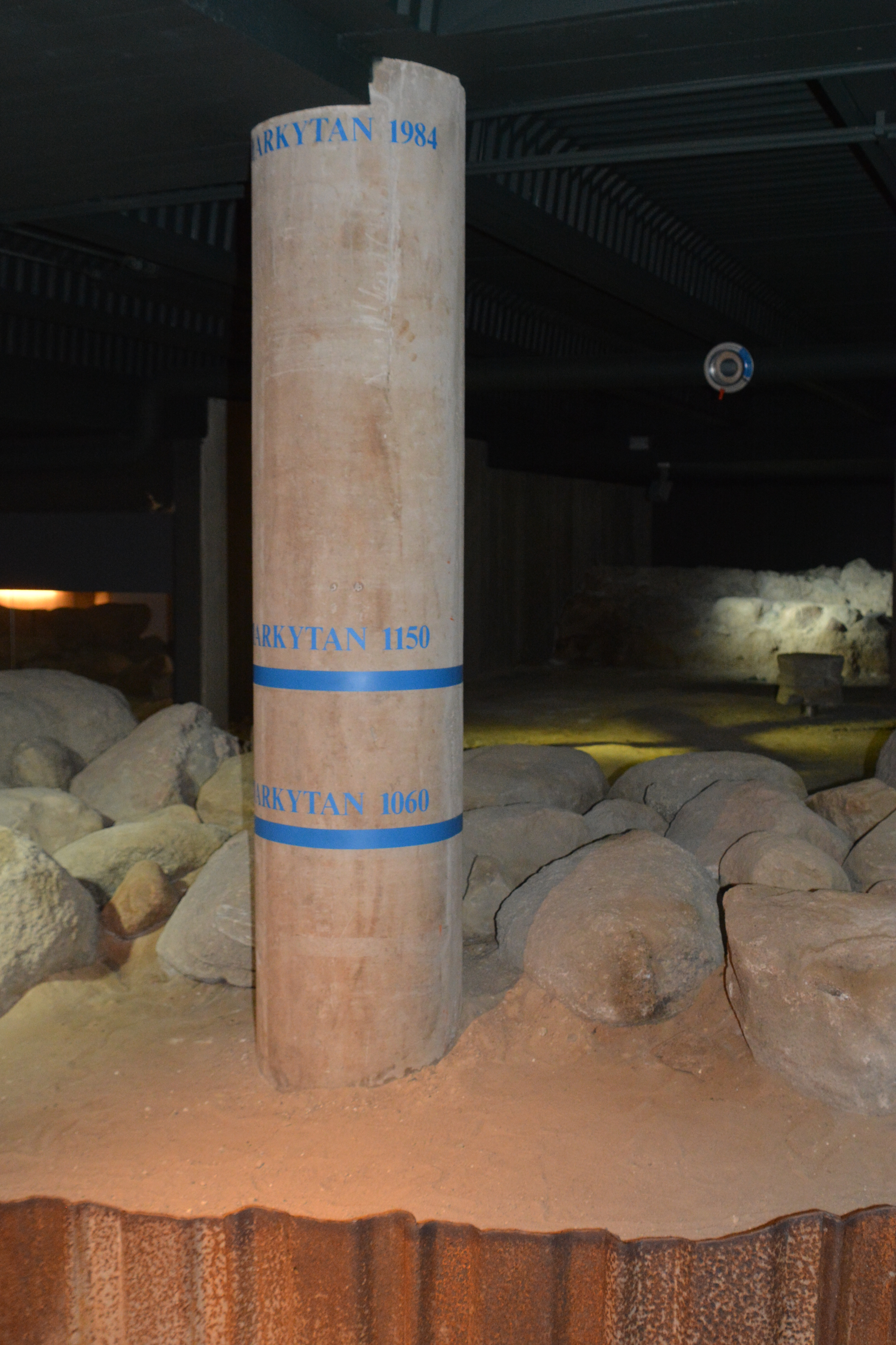 Drottens kyrkoruin. Måttskala för historisk markyta